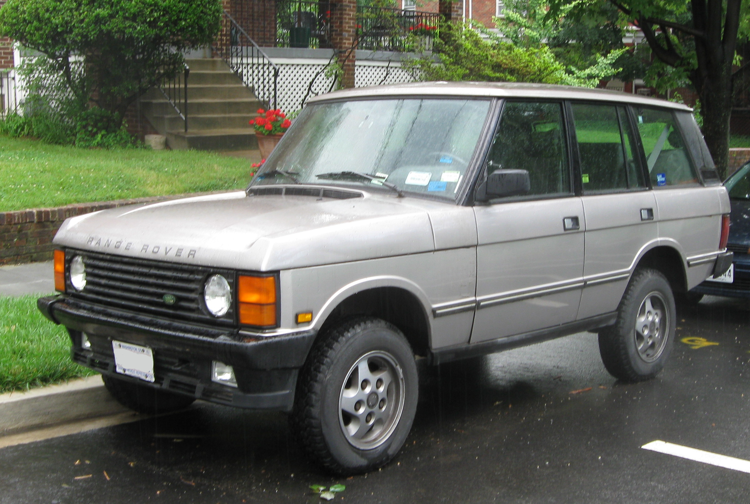 1990 Range Rover photographed in Washington, D.C., USA.